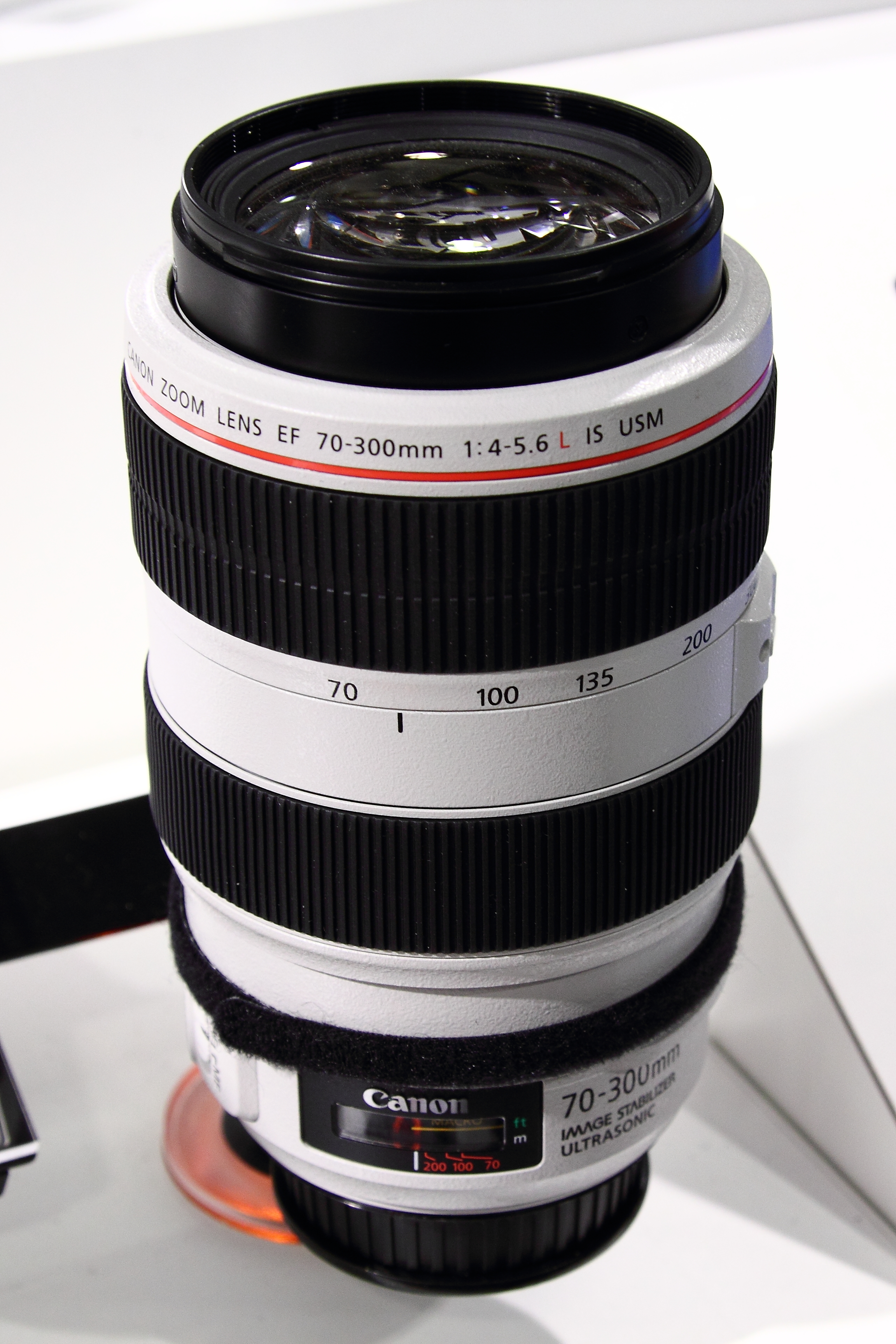 Canon EF 70-300mm F4-5.6 L IS USM, a telephoto zoom lens.